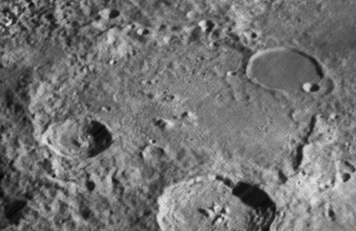 Oblique view of Bel'kovich, on the moon.